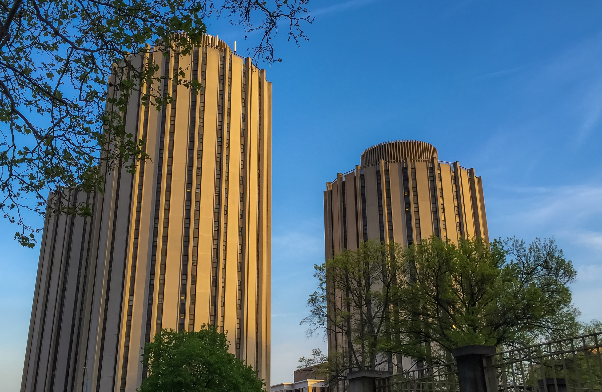 Litchfield Towers